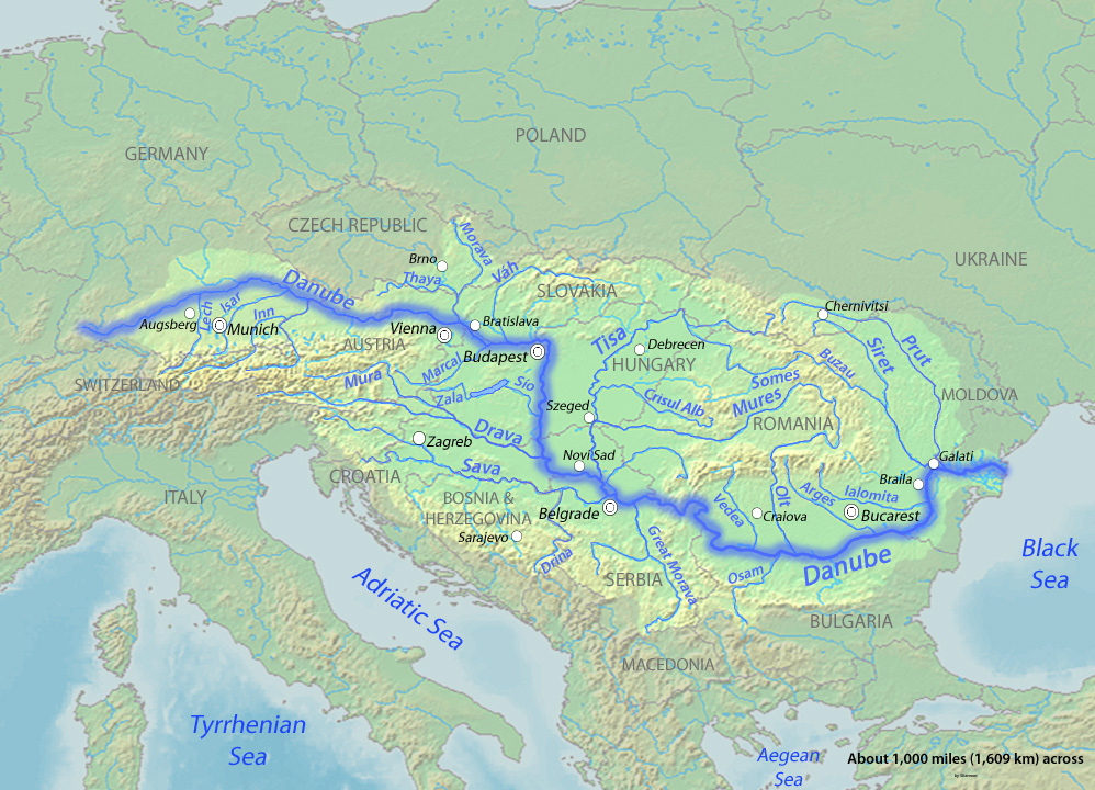 Map of the Danube, the largest river of Central Europe. Created to fill a gap in which all the other Danube maps do not fulfill.